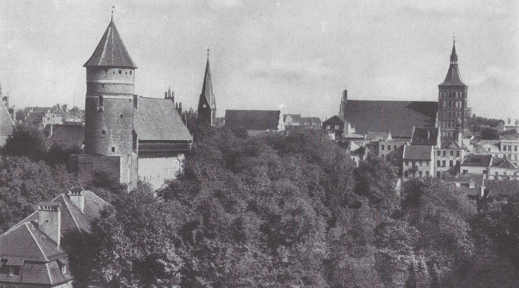 Castle hill with castle and Saint James Cathedral in Olsztyn, Poland